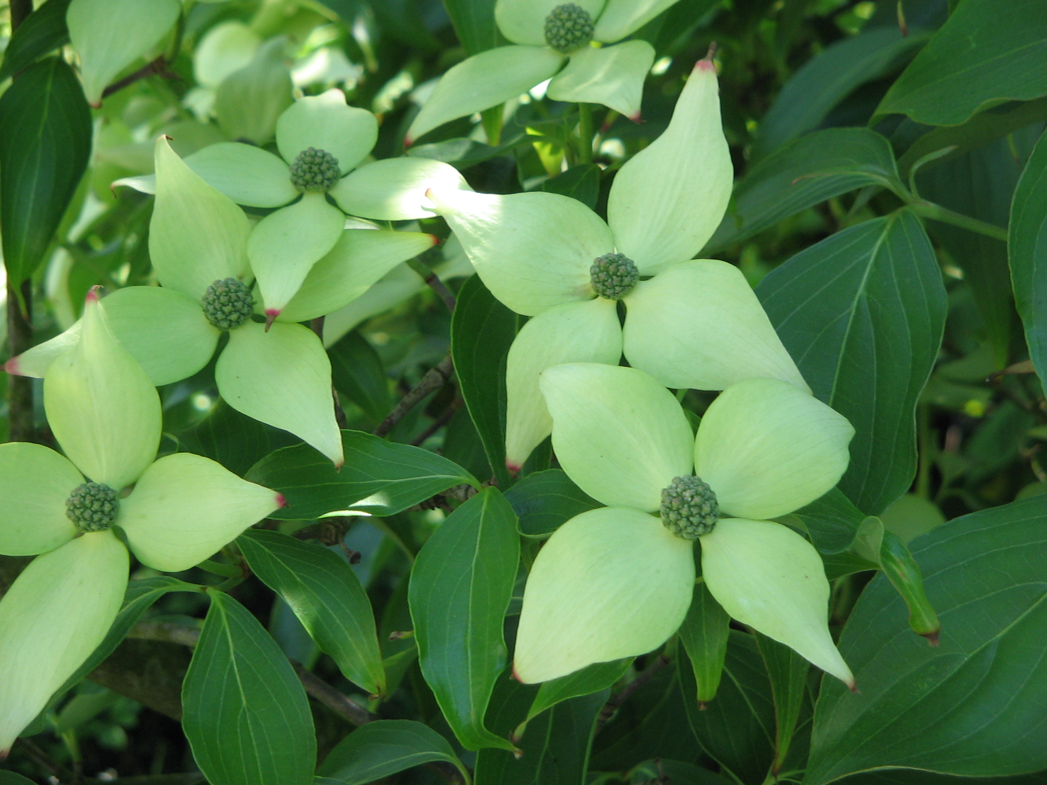 Cornus kousa var. chinensis